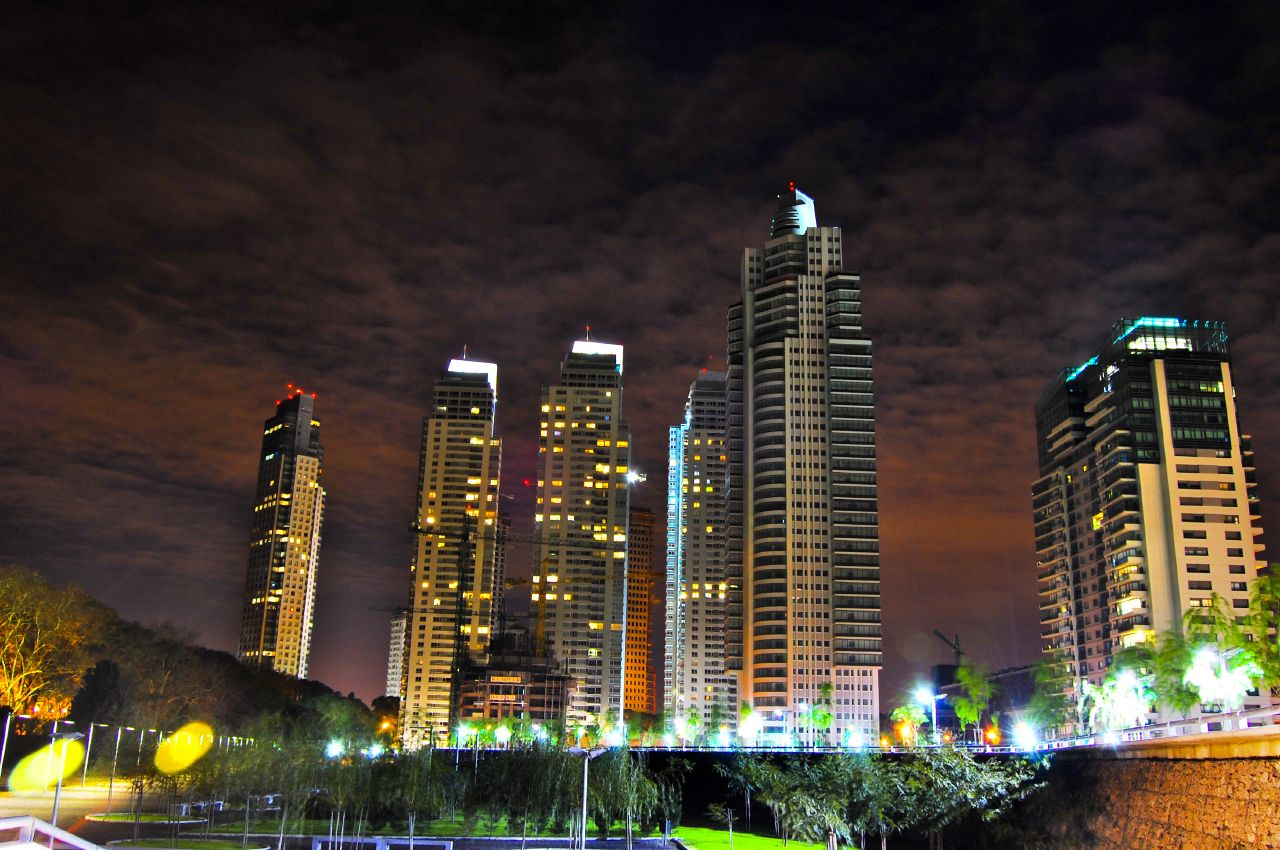 Puerto Madero at night. It is not HDR, I used D-Lighting in my Nikon D40.